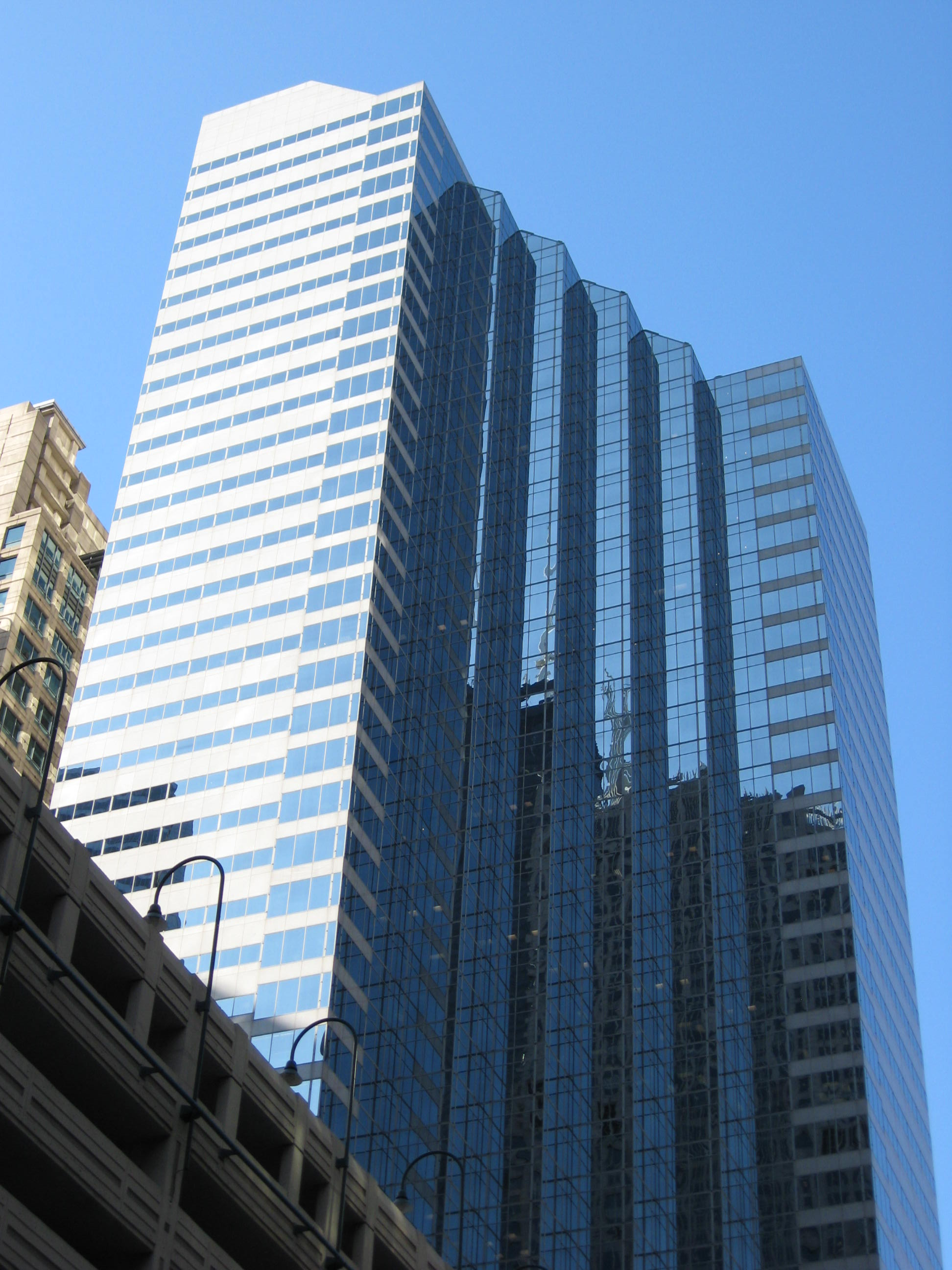 Madison Plaza, Chicago